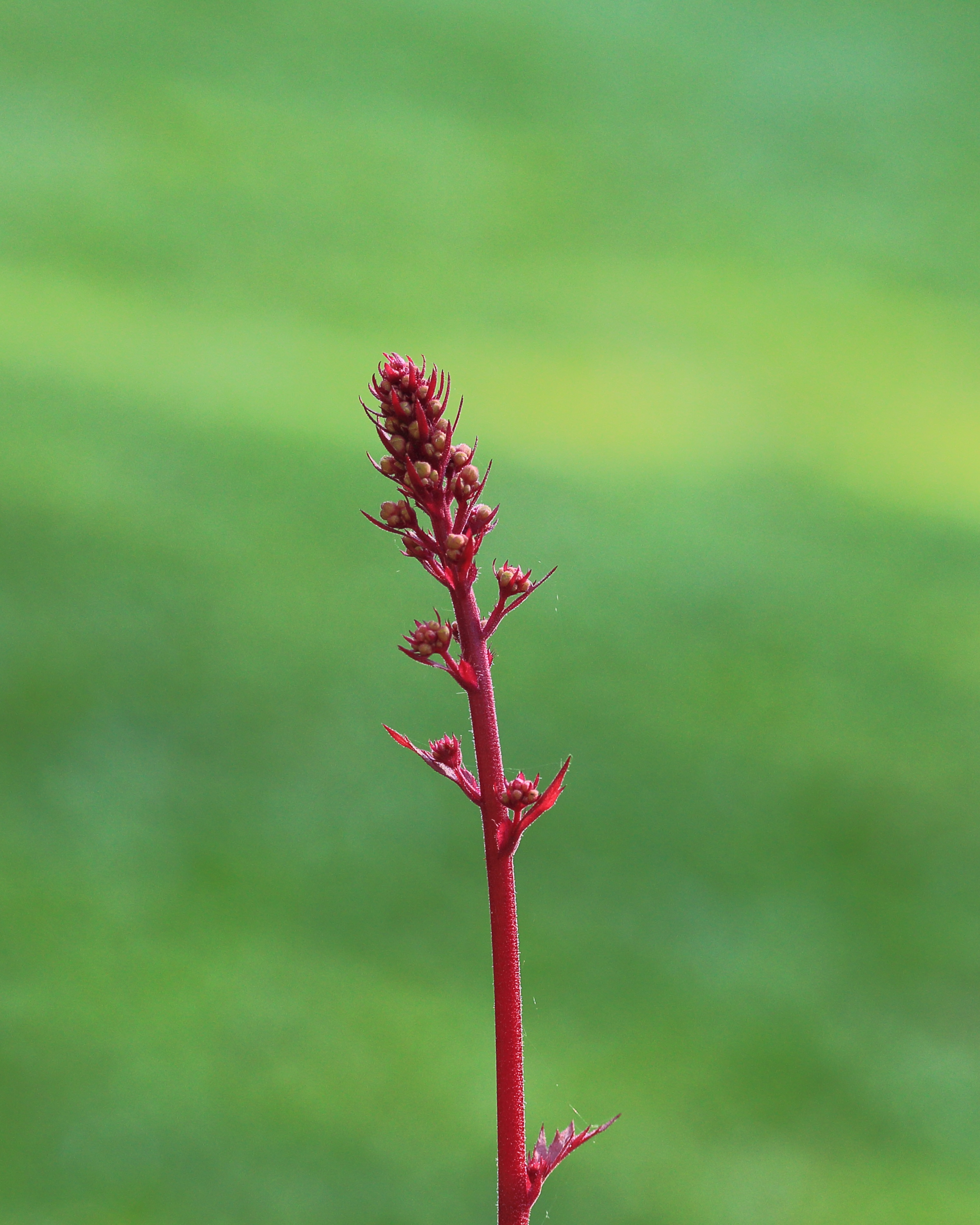 Flower buds of Heuchera marmalade.